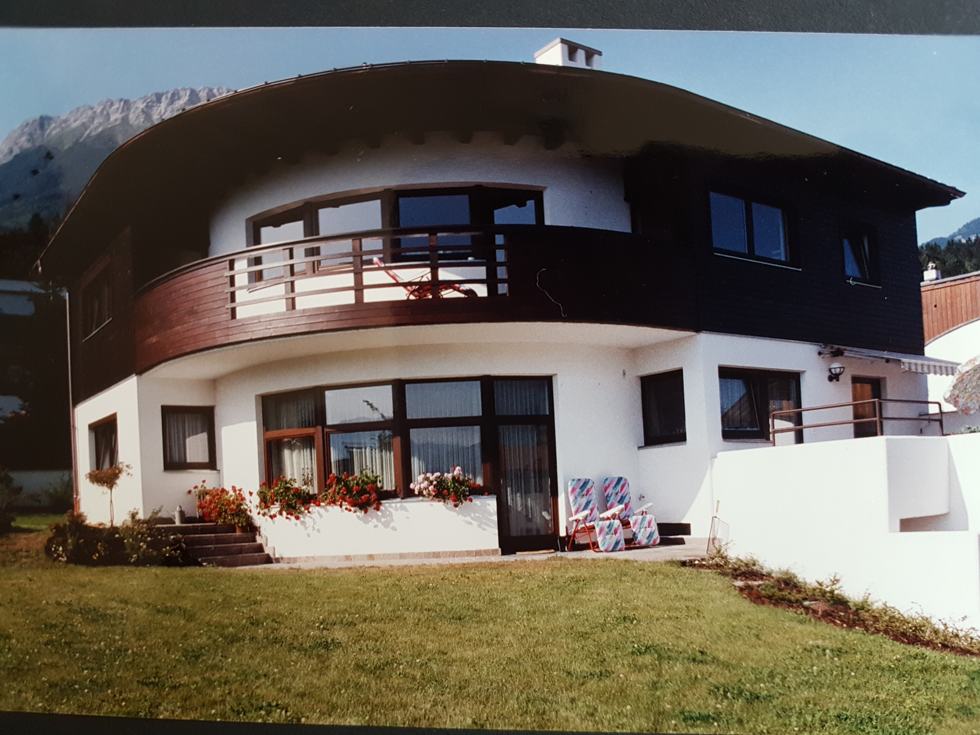 House Schmarda, Innsbruck-Arzl, Mag.Arch.G.Widmann